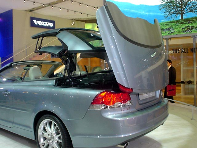 VOLVO C70 2005 in Tokyo Motor Show 2005 in transforming. photo by me.